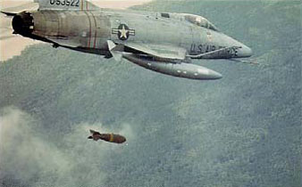 A U.S. Air Force North American F-100D-20-NA (s/n 55-3522) dropping a 343 kg M117 bomb.